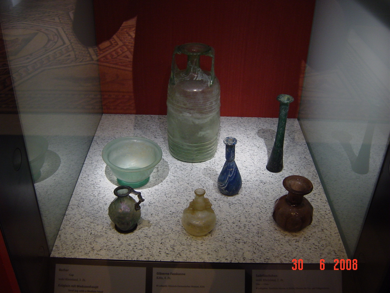 Roman glasses, found in Germany in the third and fourth century Anno domini, now shown in the Roman department of the German Historical Museum in Berlin, Germany = Deutsches Historisches Museum = DHM